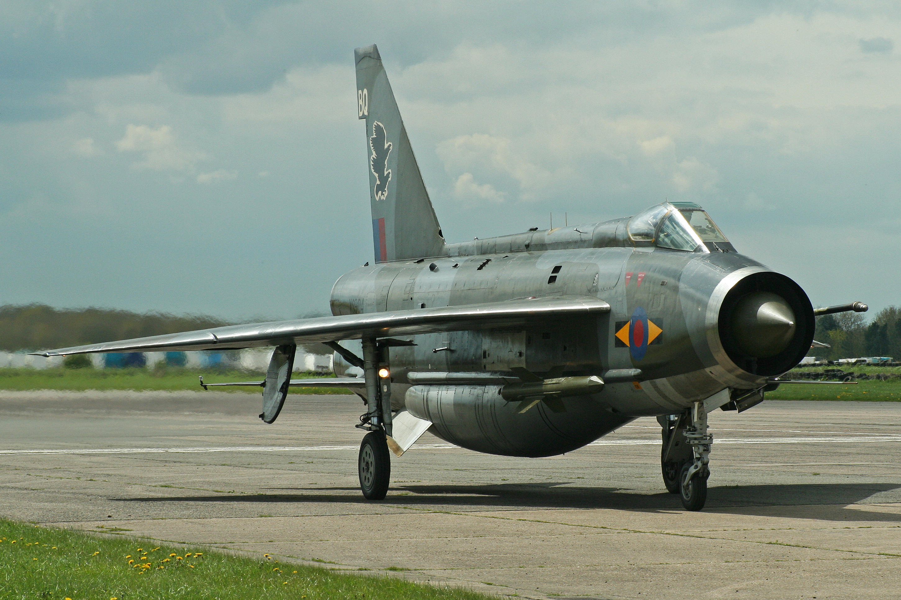 Looking every inch the fighter she is!! Marked as 'BQ' of 11sqn. msn 95250. Taxiing back after a high speed taxi run. 2012 Cold War Jets Day. Bruntingthorpe. 06-5-2012